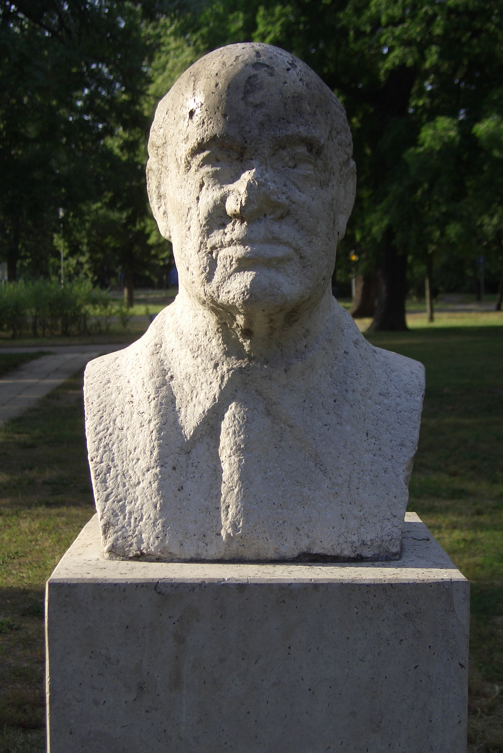 Bust of Milán Füst (1888–1967), Hungarian writer, poet, playwright, in City Park, Budapest XIVth district